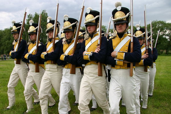 Reconstruction(2006) of Battle of Raszyn(1809)